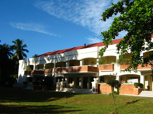 Silliman University's Institute of Environmental and Marine Sciences (formerly Silliman University Marine Laboratory), along Silliman Beach, Dumaguete City, Philippines